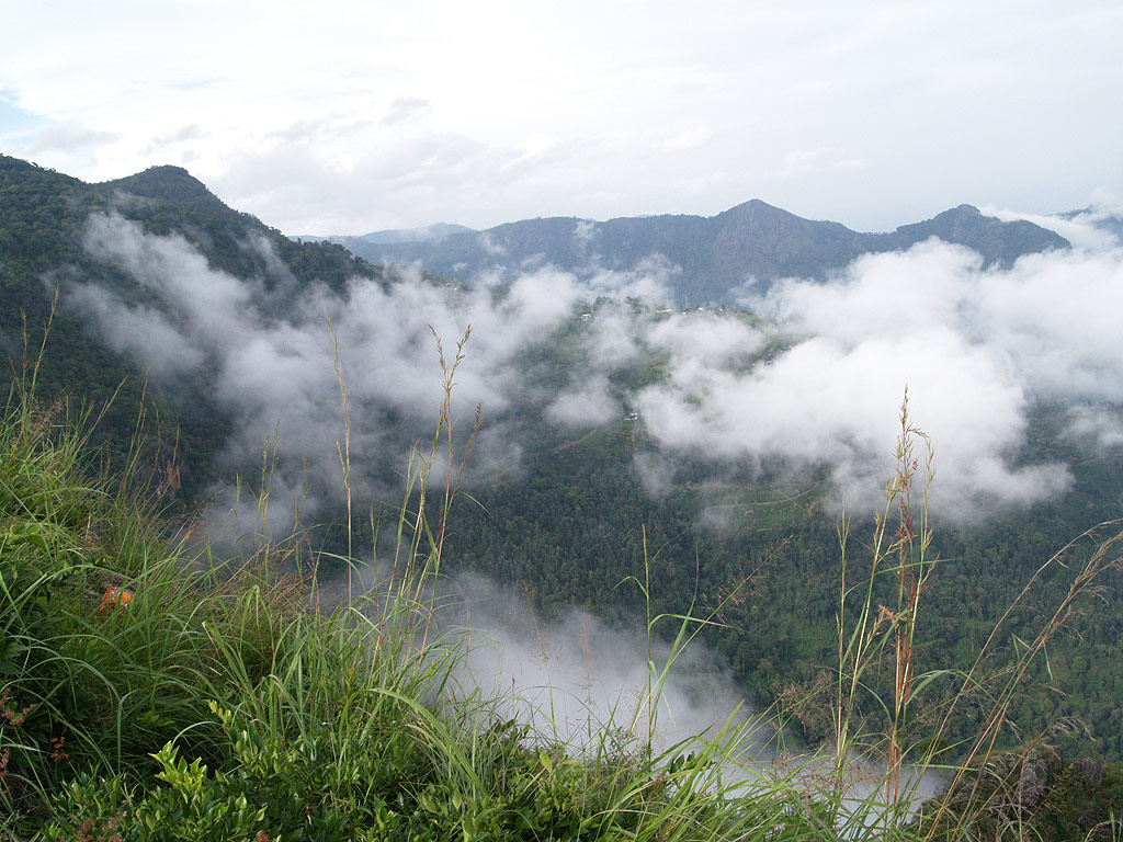 The image seen is one of the View of Needle Rock View Point